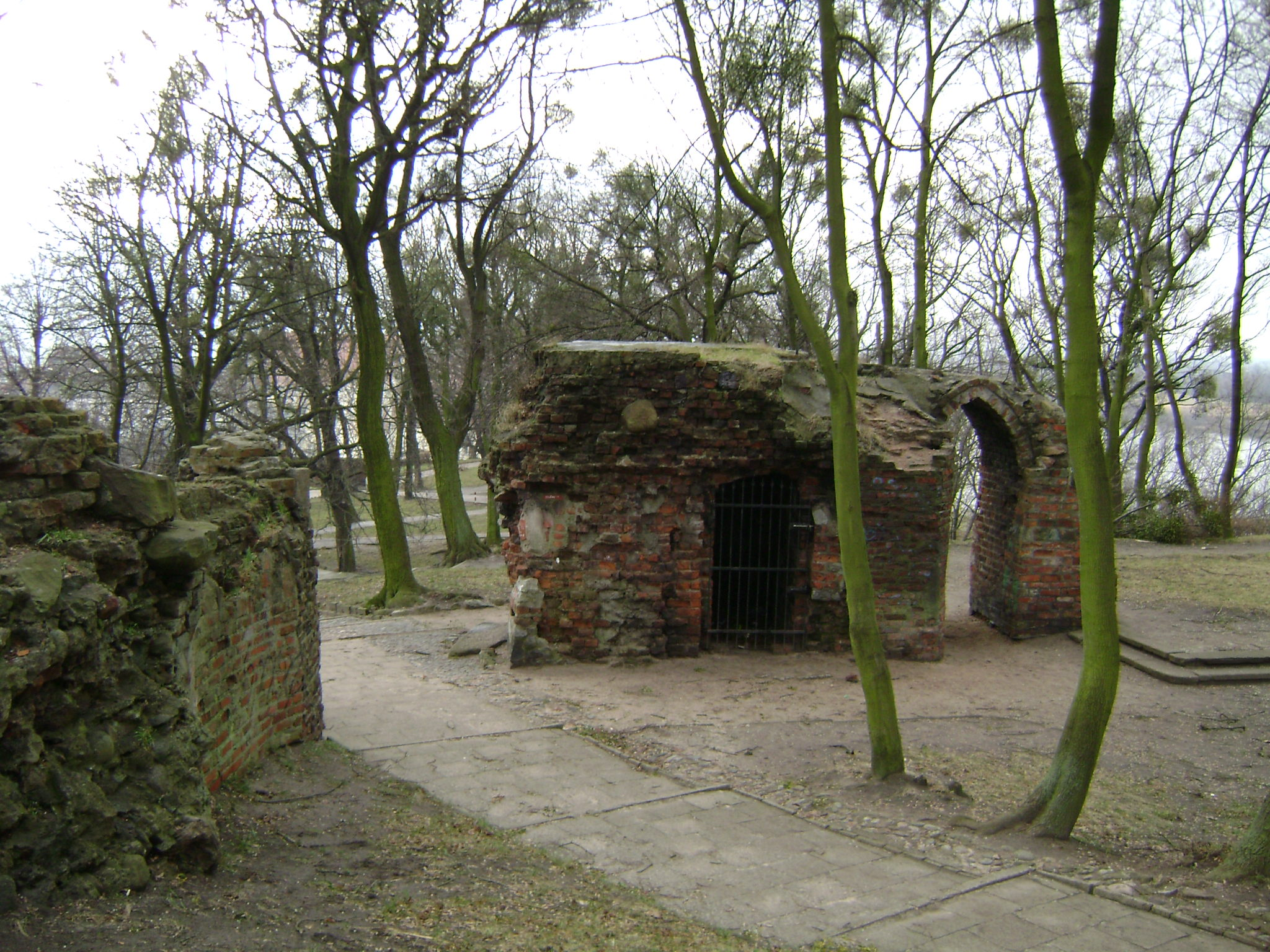 Remains of castle chapel in Grudziądz